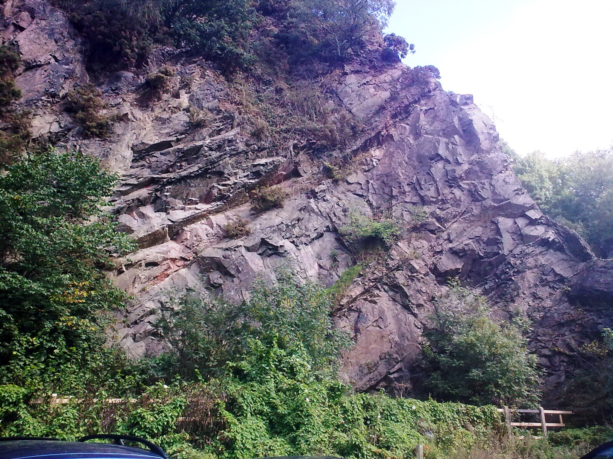 A picture of the Uriconian Volcanics at The Wrekin, Shropshire. Volcaniclastic deposits from the Precambrian.